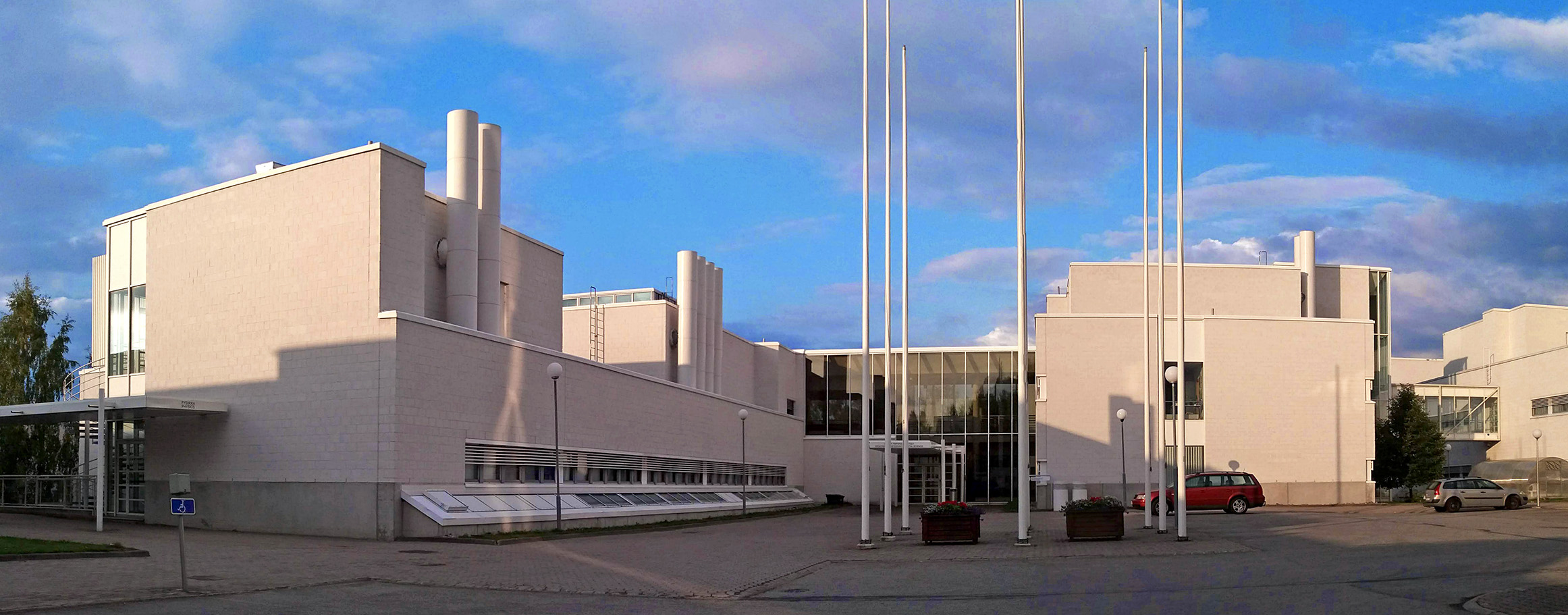 Ambiotica (The Department of Biological and Environmental Science), University of Jyväskylä.